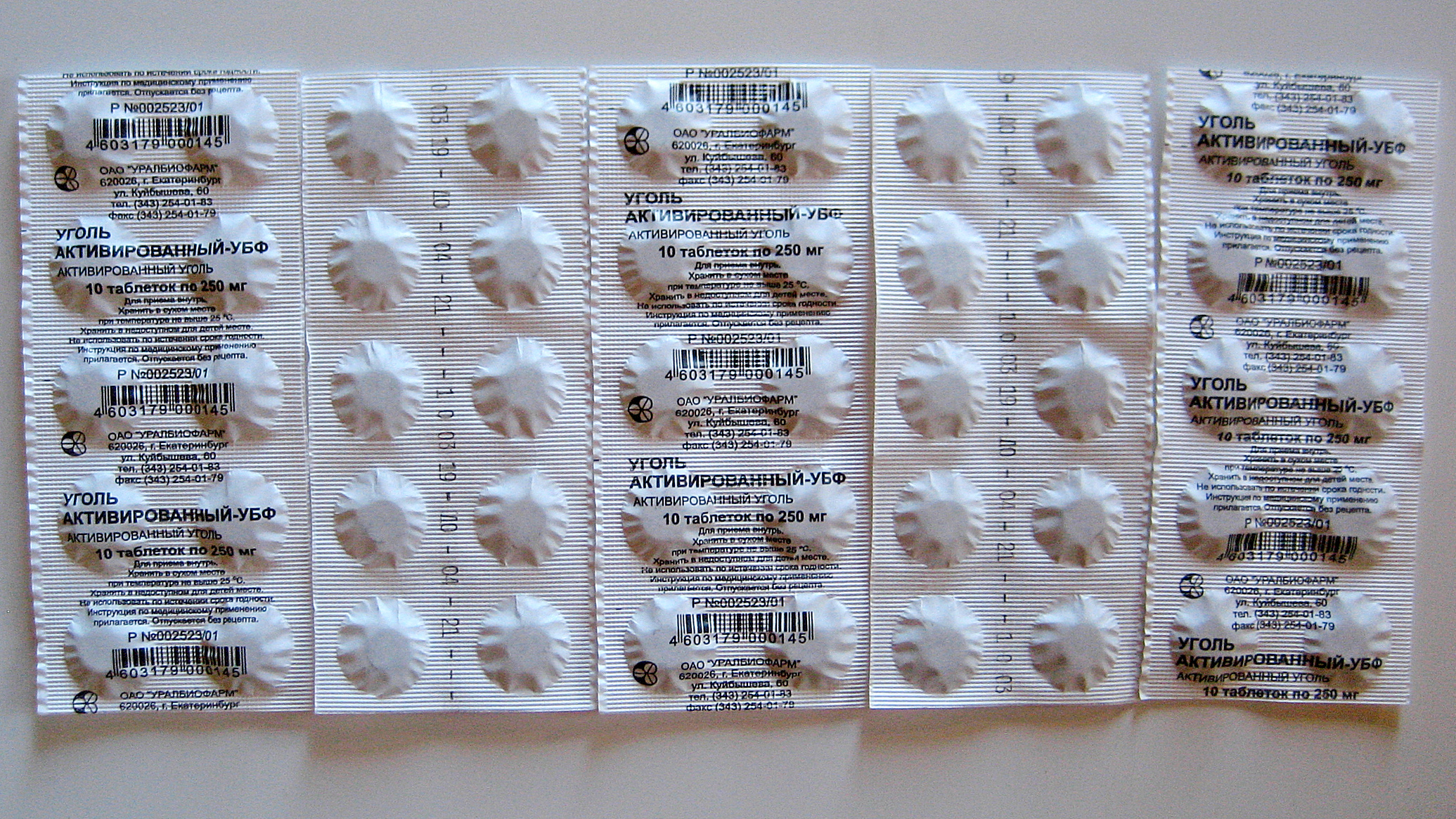 Activated carbon